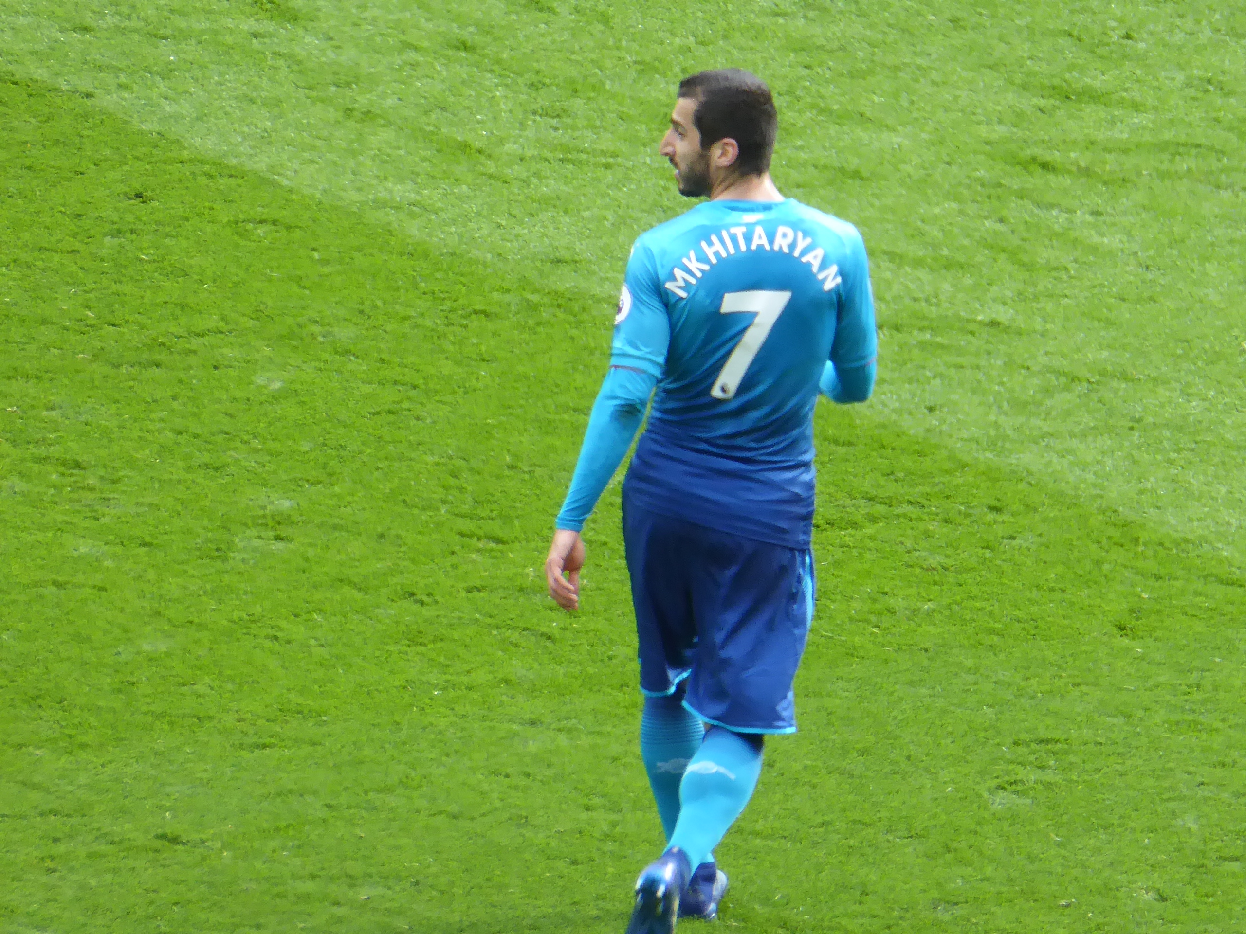 Manchester United v Arsenal (2-1), Premier League, Old Trafford, Manchester, Greater Manchester, England, 29 April 2018